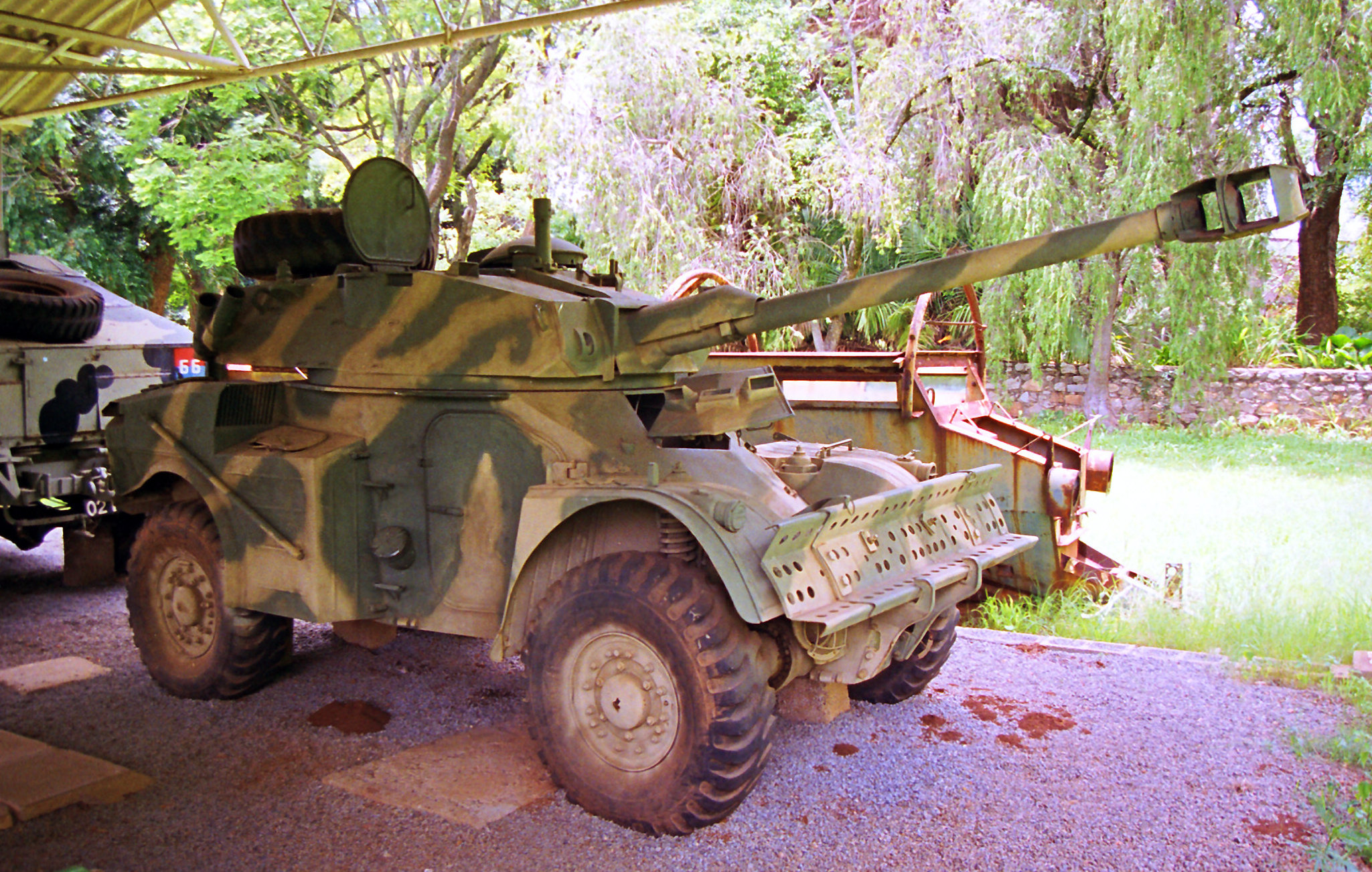 Eland-90 Mk4 or Mk5 armoured car at the Zimbabwe Military Museum, Gweru.